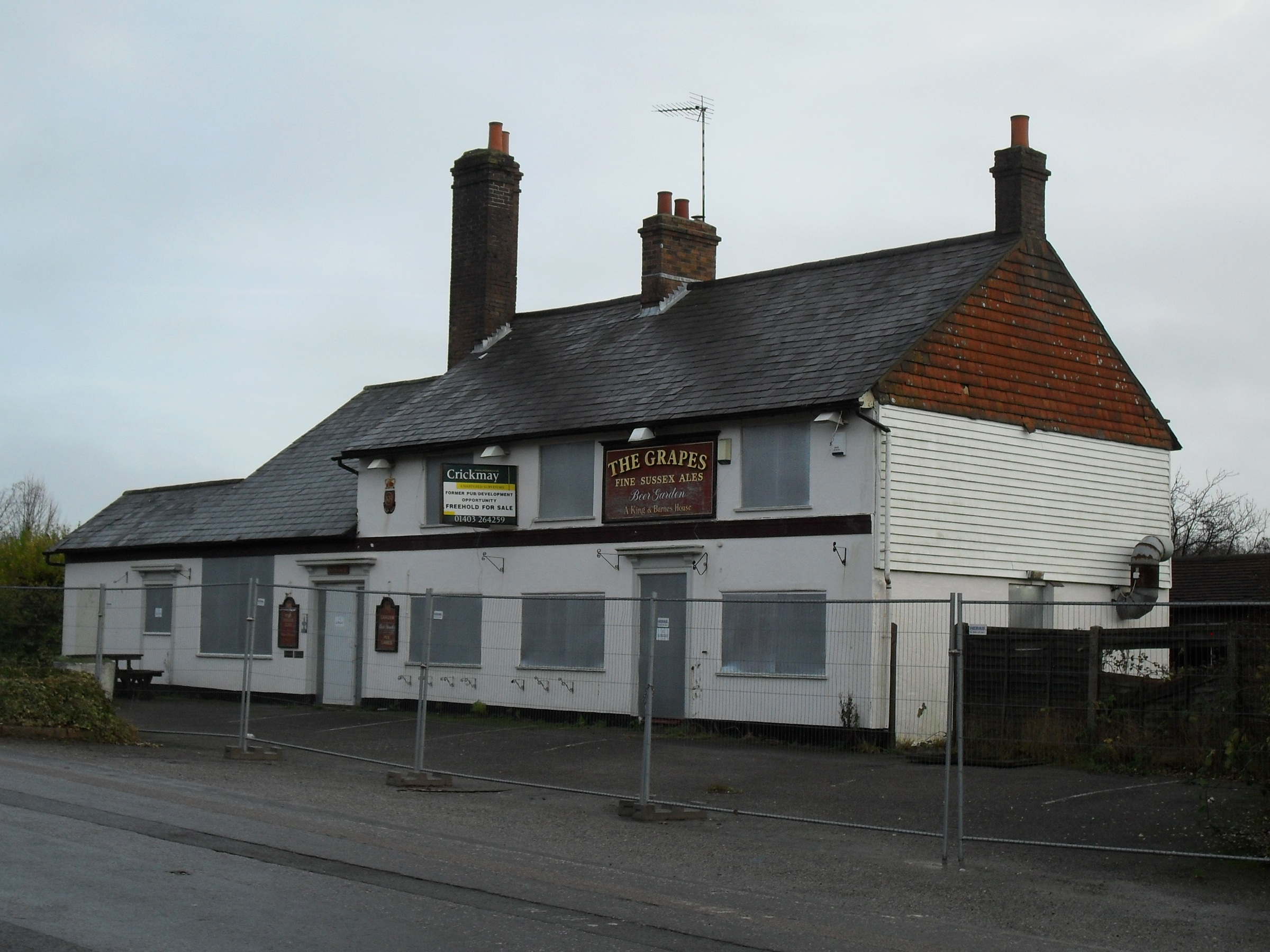 The Grapes pub (now demolished), Old Brighton Road South, Pease Pottage, District of Mid Sussex, West Sussex, England. One of two pubs in the small village, it closed early in the 21st century and was demolished in 2010.